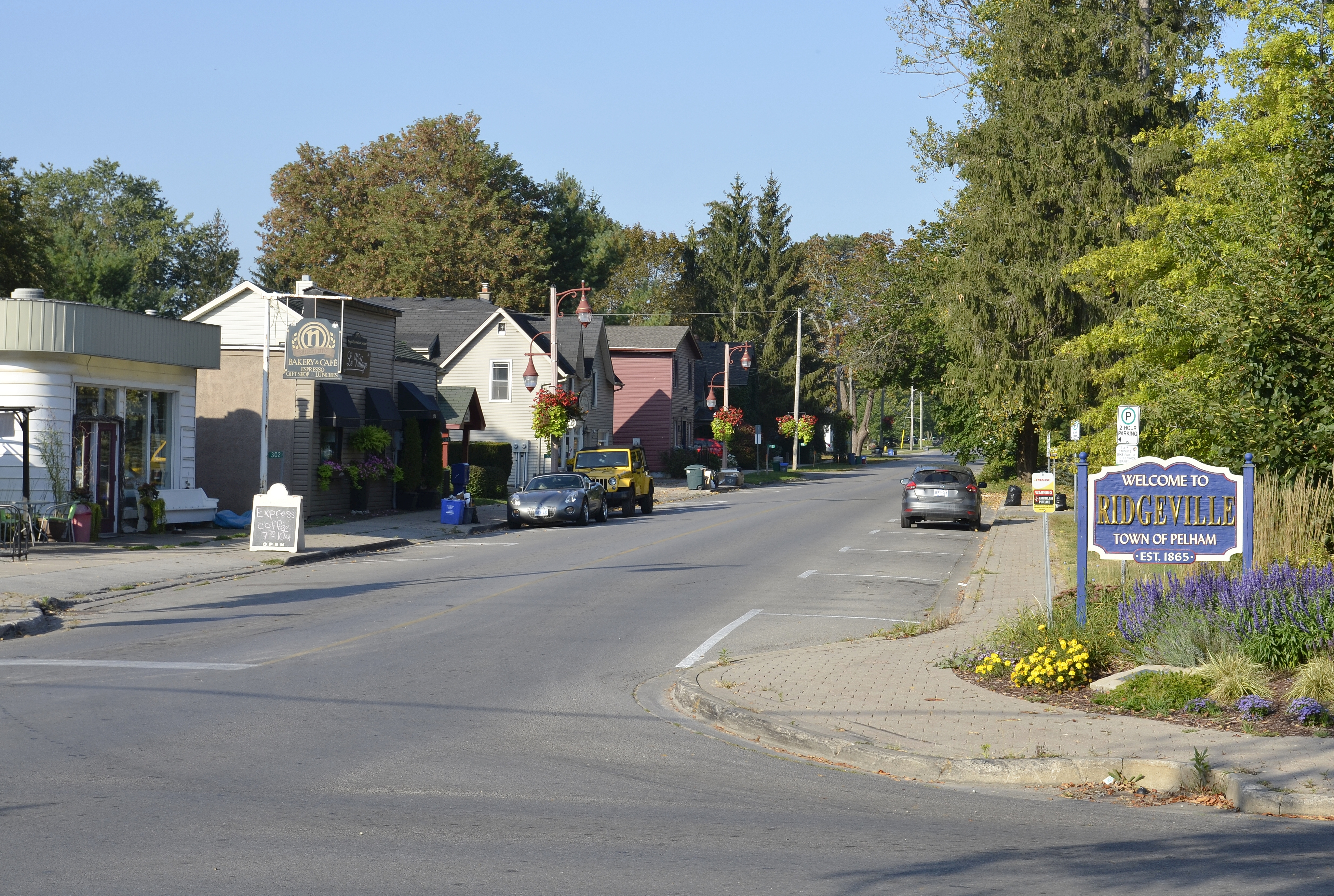 Looking north on Canboro Road in Ridgeville, Ontario.